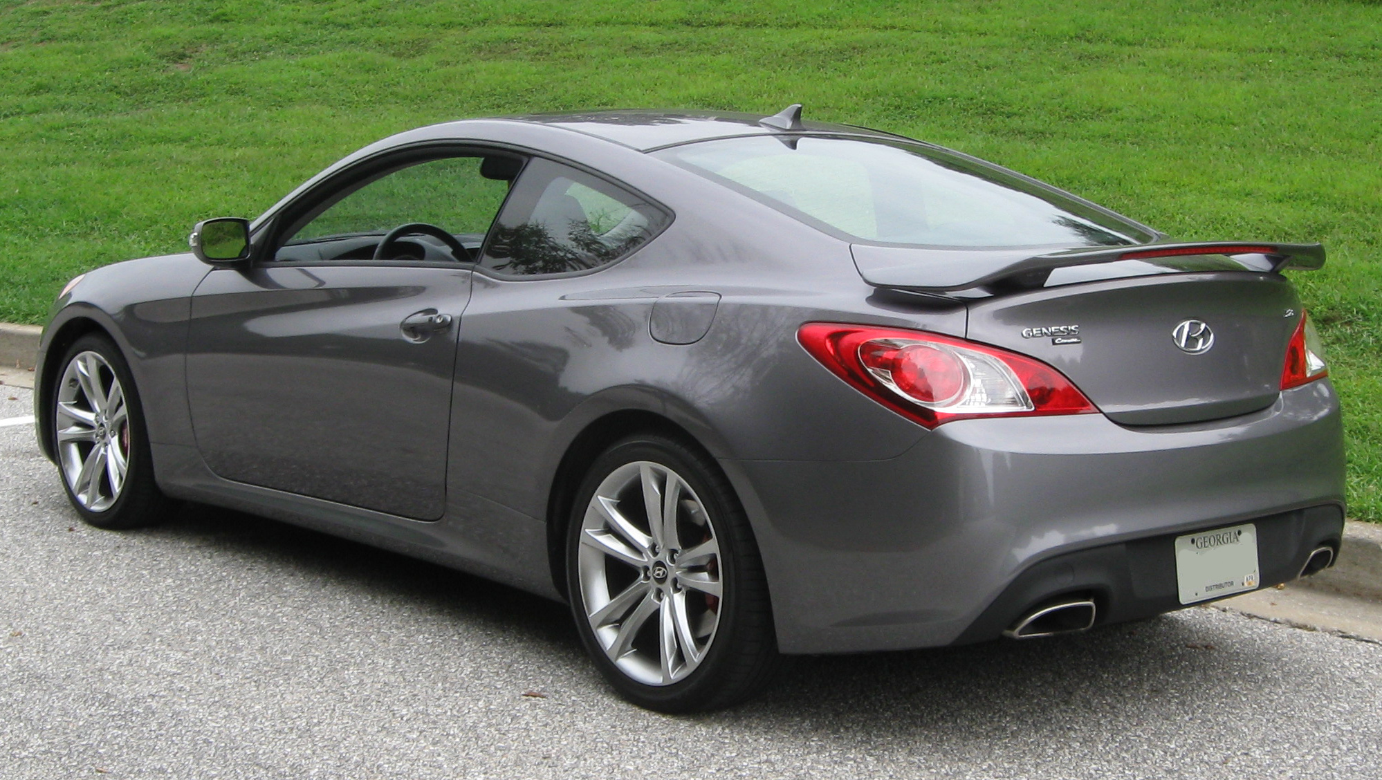 2010 Hyundai Genesis Coupe 3.8 Track photographed in Ellicott City, Maryland, USA.